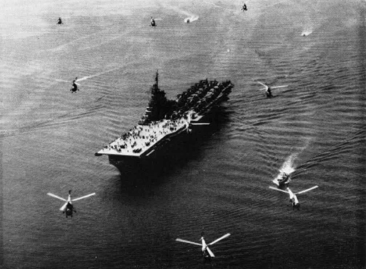 The U.S. anti-submarine carrier USS Princeton (CVS-37), with Grumman S2F-1 Tracker planes of Anti-Submarine Squadron 23 (VS-23) "Black Cats" on deck and nine Sikorsky HO4S-3S helicopters of Helicopter Anti-Submarine Squadron 4 (HS-4) Det. N flying above, in late 1954.